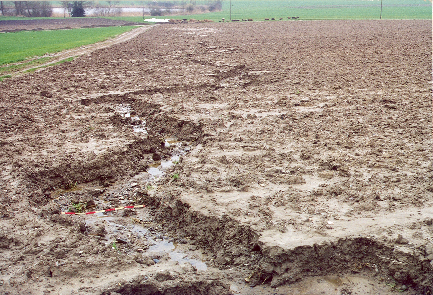 Fallow, canton of Bern, Switzerland